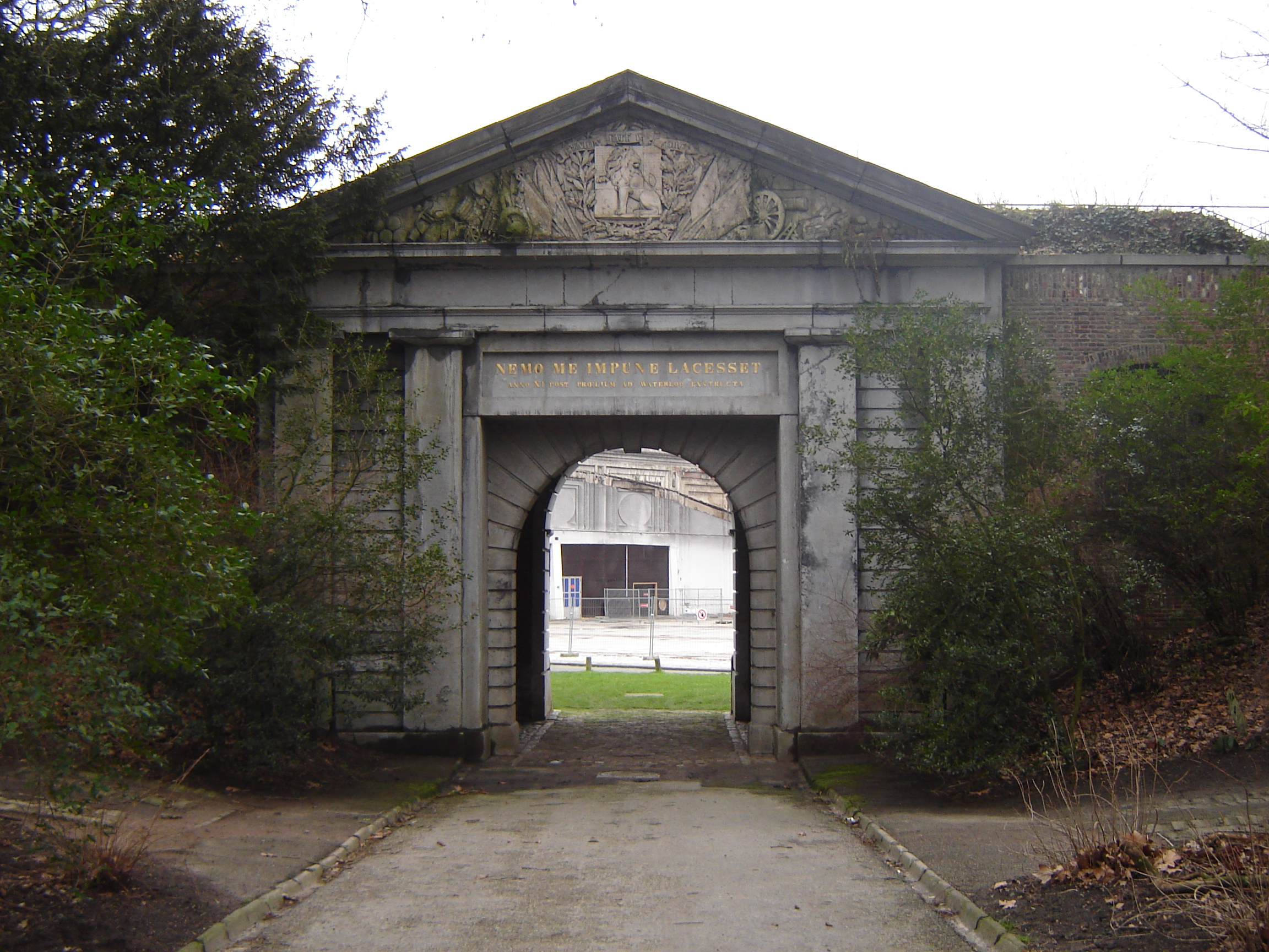 Gate of the former citadel of Gent, now in the Citadelpark. Gent, West-Flanders, Belgium